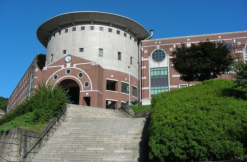 HUFS, Central Library, Global Campus